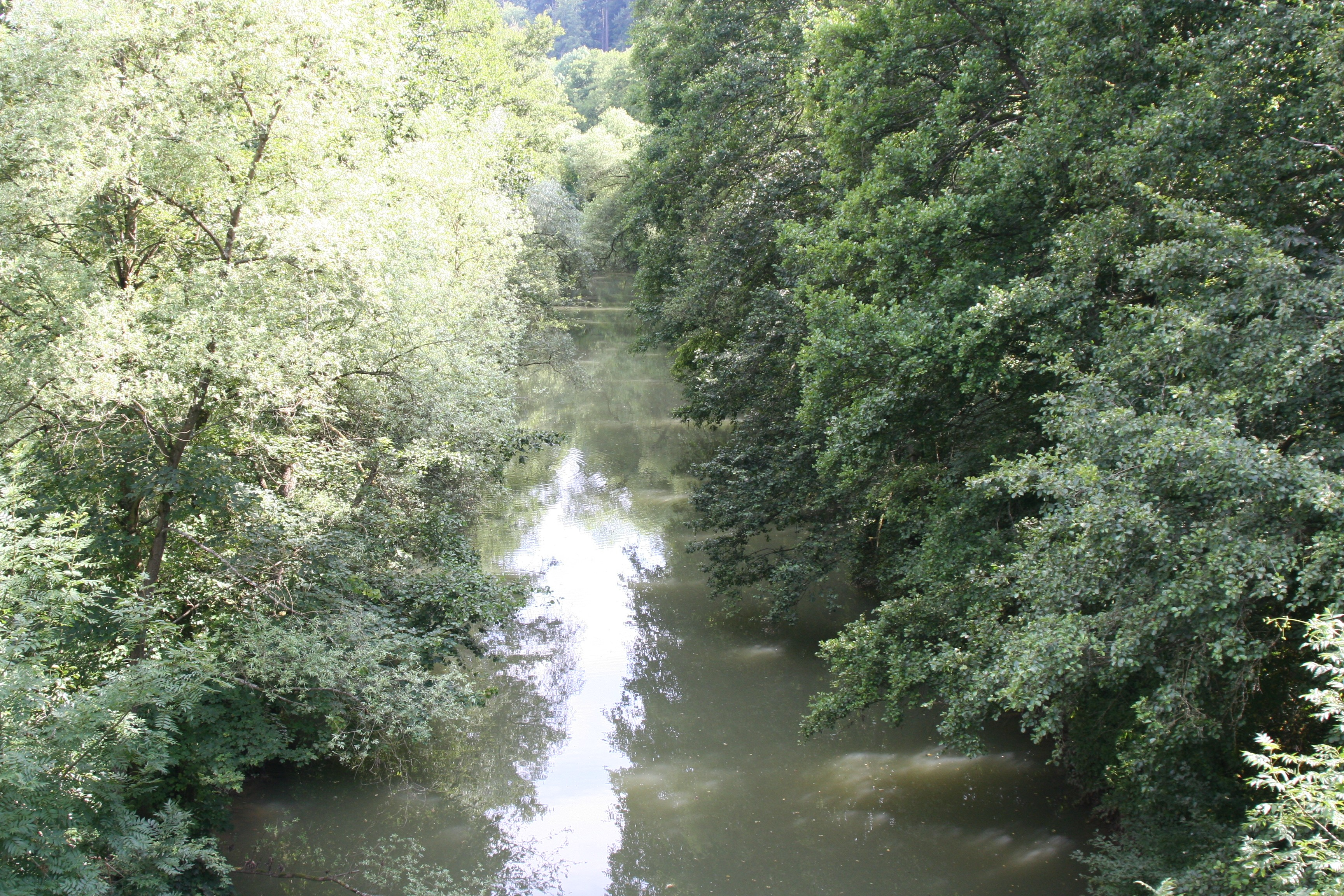 The Tauber river in Wertheim-Bronnbach (view upstream)